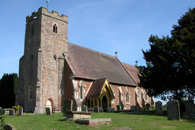 Oxenhall Church. St Anne's church at Oxenhall was rebuilt in 1867-8 except for the tower which dates from the 14th century. Until 1972 the tower was topped by a spire.